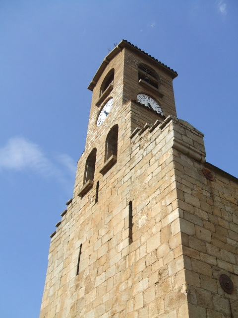 Vernet-les-Bains (département of Pyrénées-Orientales, Languedoc-Roussillon région, France) : Saint-Saturnin church (XIIth century) ; belltower